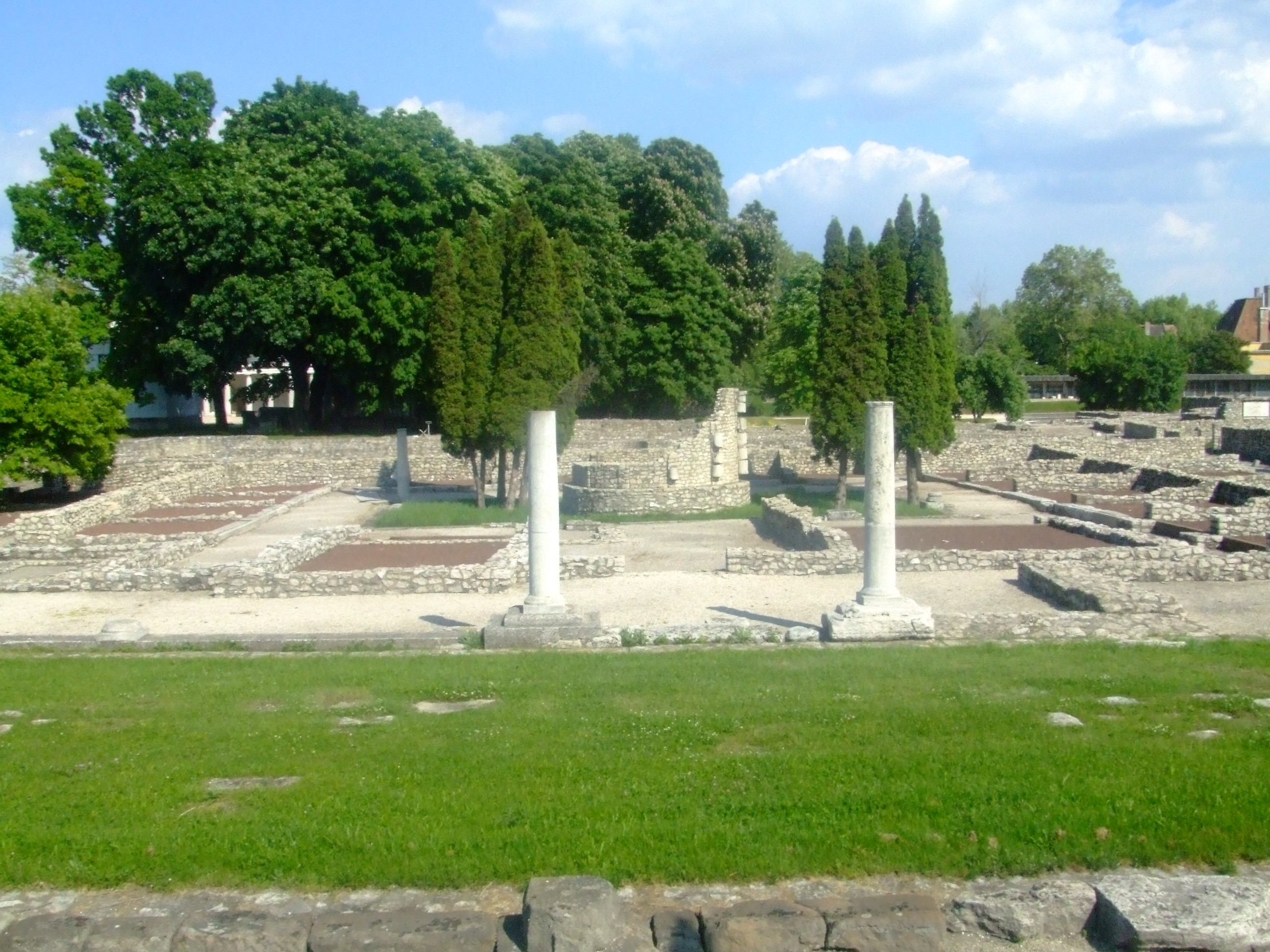 Aquincum was situated on the North-Eastern borders of Pannonia Province within the Roman Empire. The ruins of the city can be found today in Budapest, capital city of Hungary.